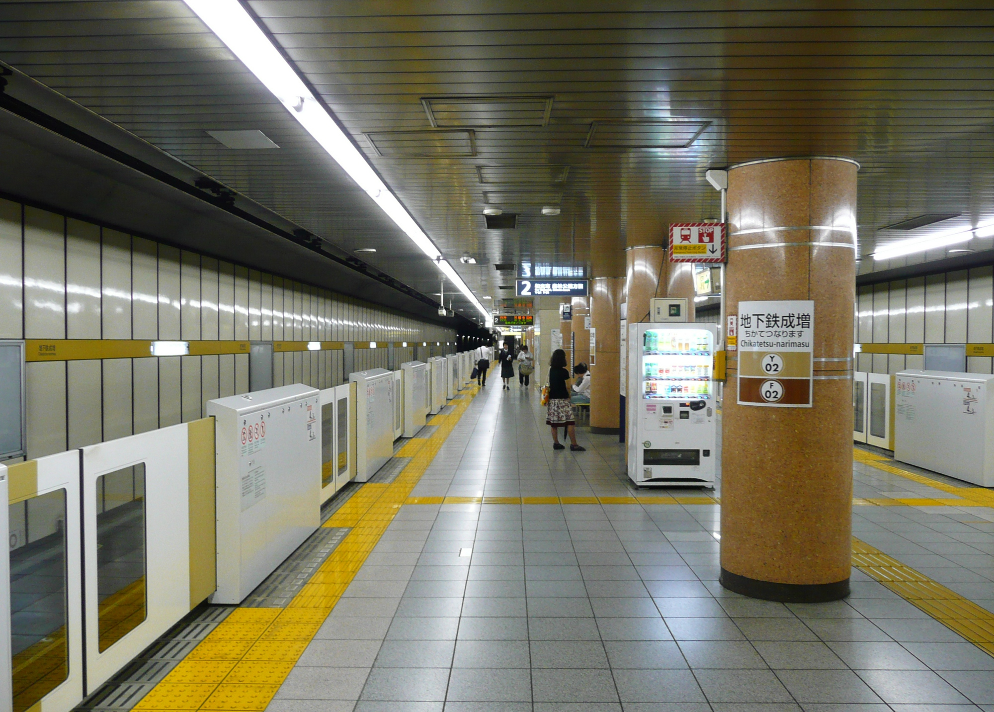 Platforms of Chikatetsu-Narimasu Station on the Tokyo Metro Yurakucho Line in Tokyo, showing the waist-high platform edge doors